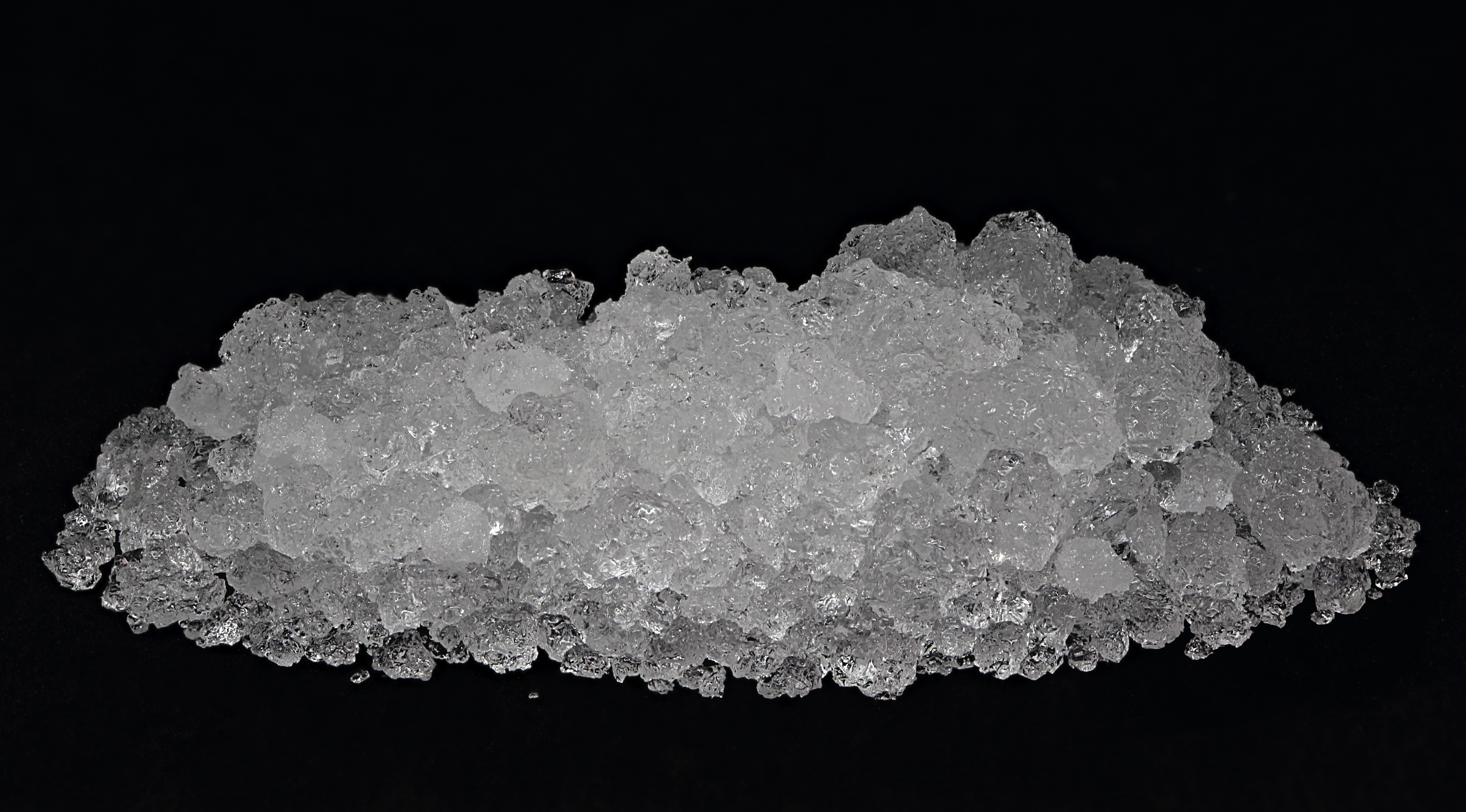 Soda crystals (Sodium carbonate). Length: 9,5 cm. Picture taken in Belgium.